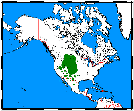 Pronghorn (Antilocapra americana) range map, made by me with help of Map depending on the range map at IUCN red list.